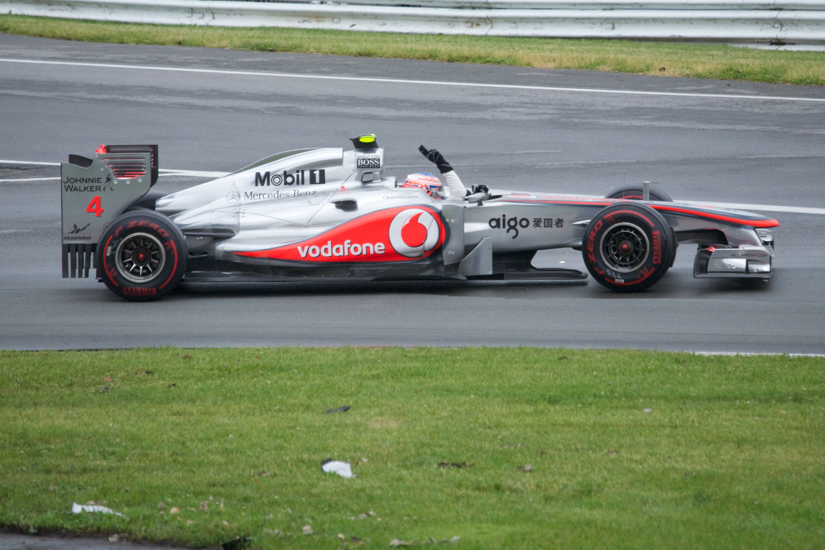 2011 Canadian Grand Prix